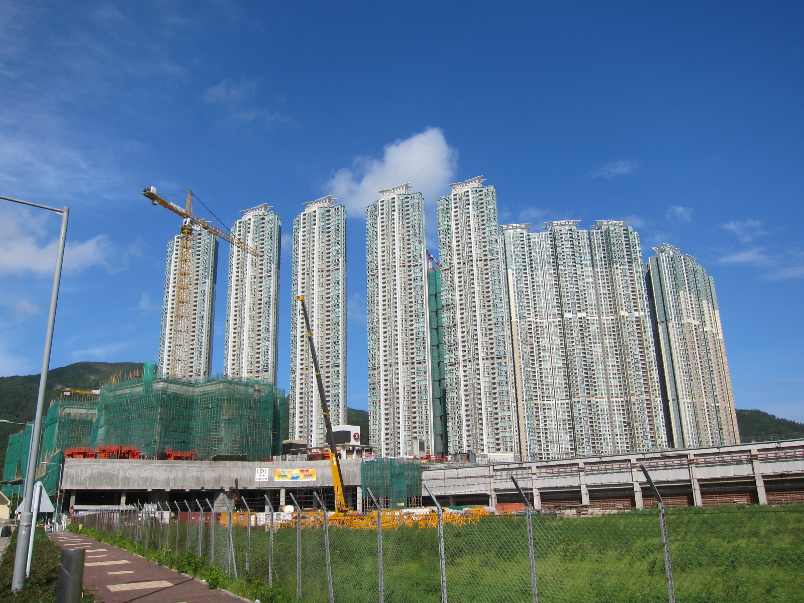 LOHAS Park Jun 2012